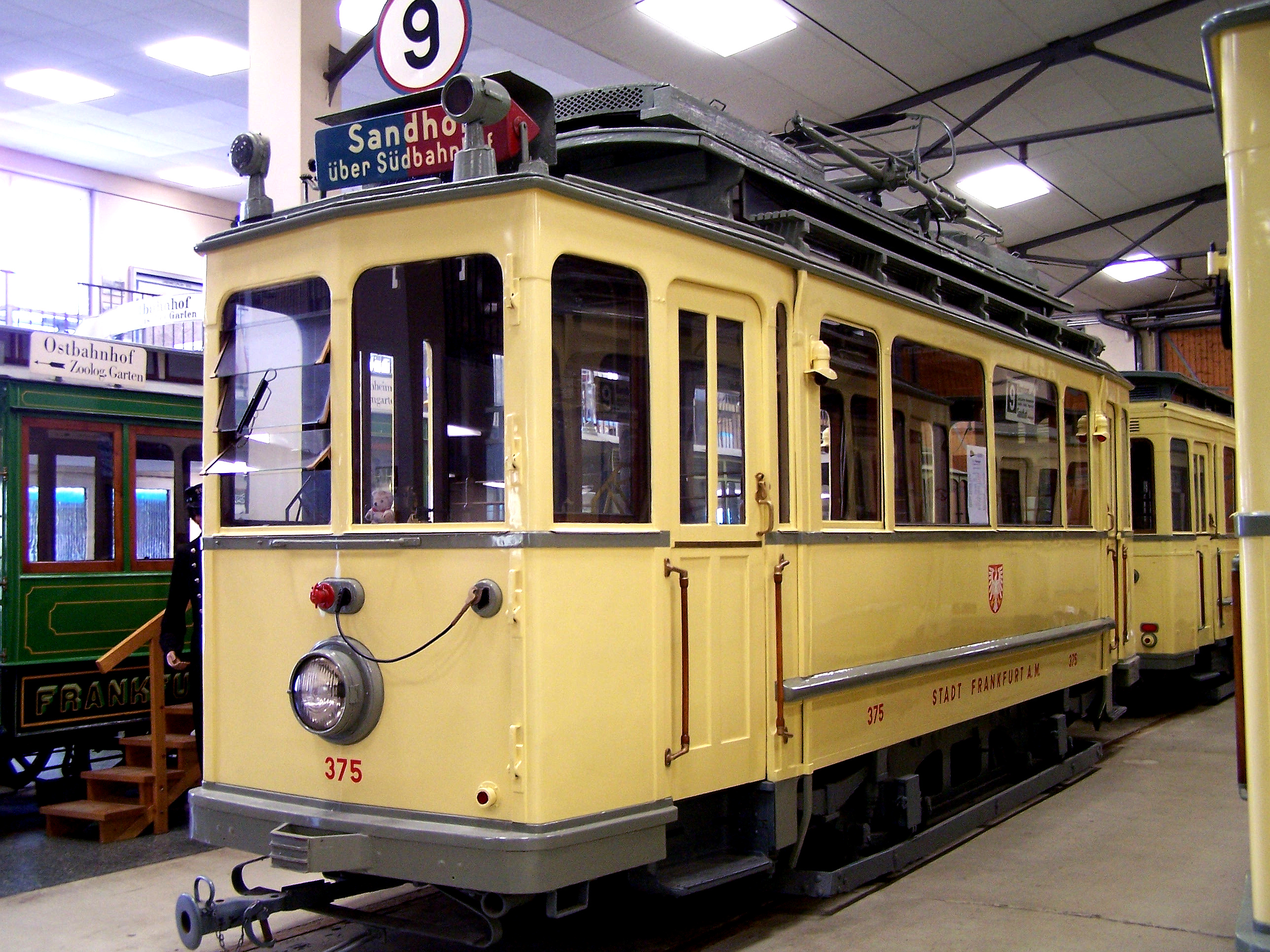 tram type C No 375 in the Frankfurt on Main Transport Museum in Frankfurt am Main--Schwanheim